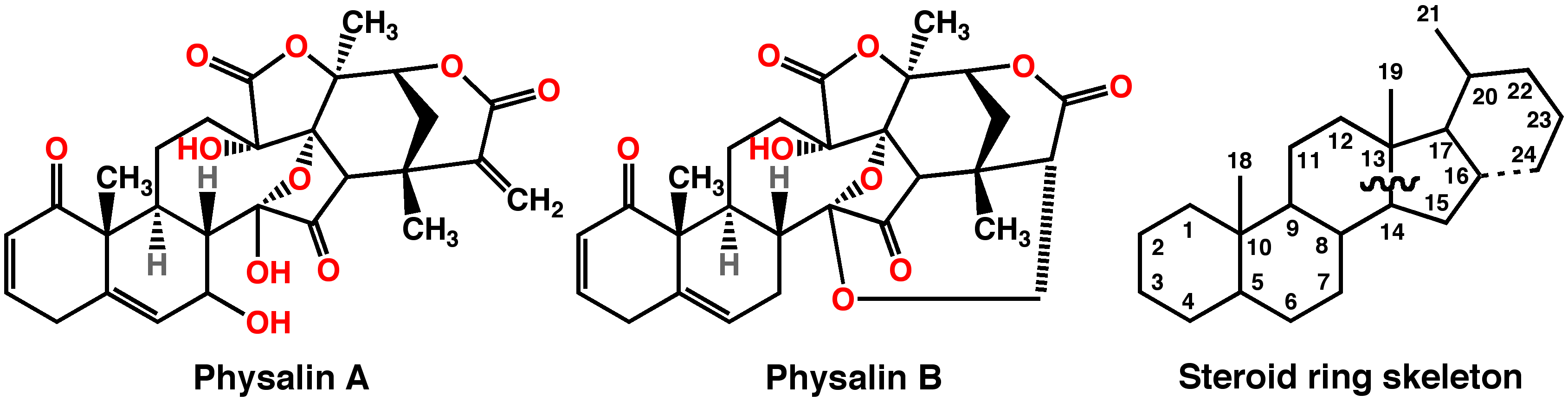 Created myself using ChemDraw.